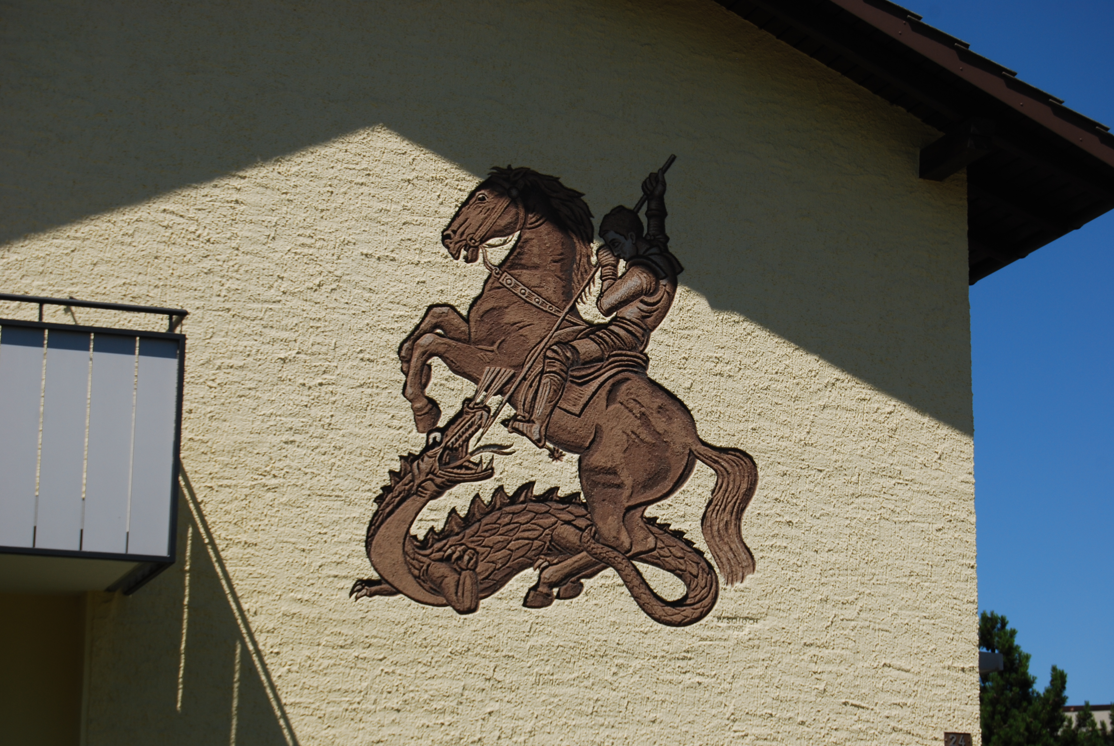 Post office of Wilen, canton of Thurgovia, Switzerland